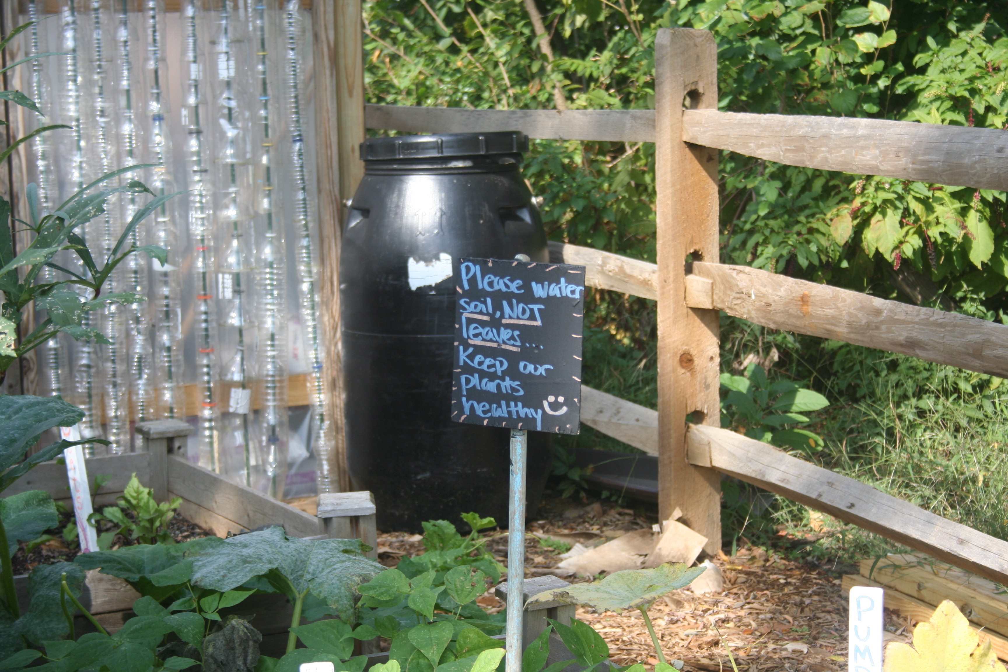 Washington, DC